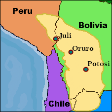 Locations of the possible origin of the Diablada (in the Altiplano region). Juli, Peru. Oruro, Bolivia. Potosi, Bolivia. Altiplano is labeled as yellow. Countries mentioned are Peru, Bolivia, and Chile. Argentina and Brazil, also in picture, are not named.